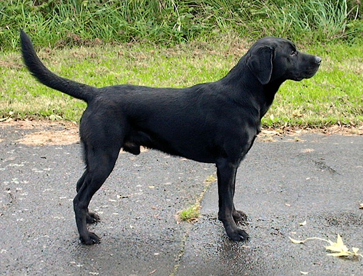 Own Work, perfect side view of a pedigree, working Black Labrador Retriever bred and owned in North East England (NE23). Owned trained and worked in Cramlington England. His Name is "Kaine" Pedigree and KC Registration Named Master Midnight Shadow. Born in a stable in Felton Northumberland. Works hunting and retrieving wild game (pheasant, partridge etc in Northumberland).